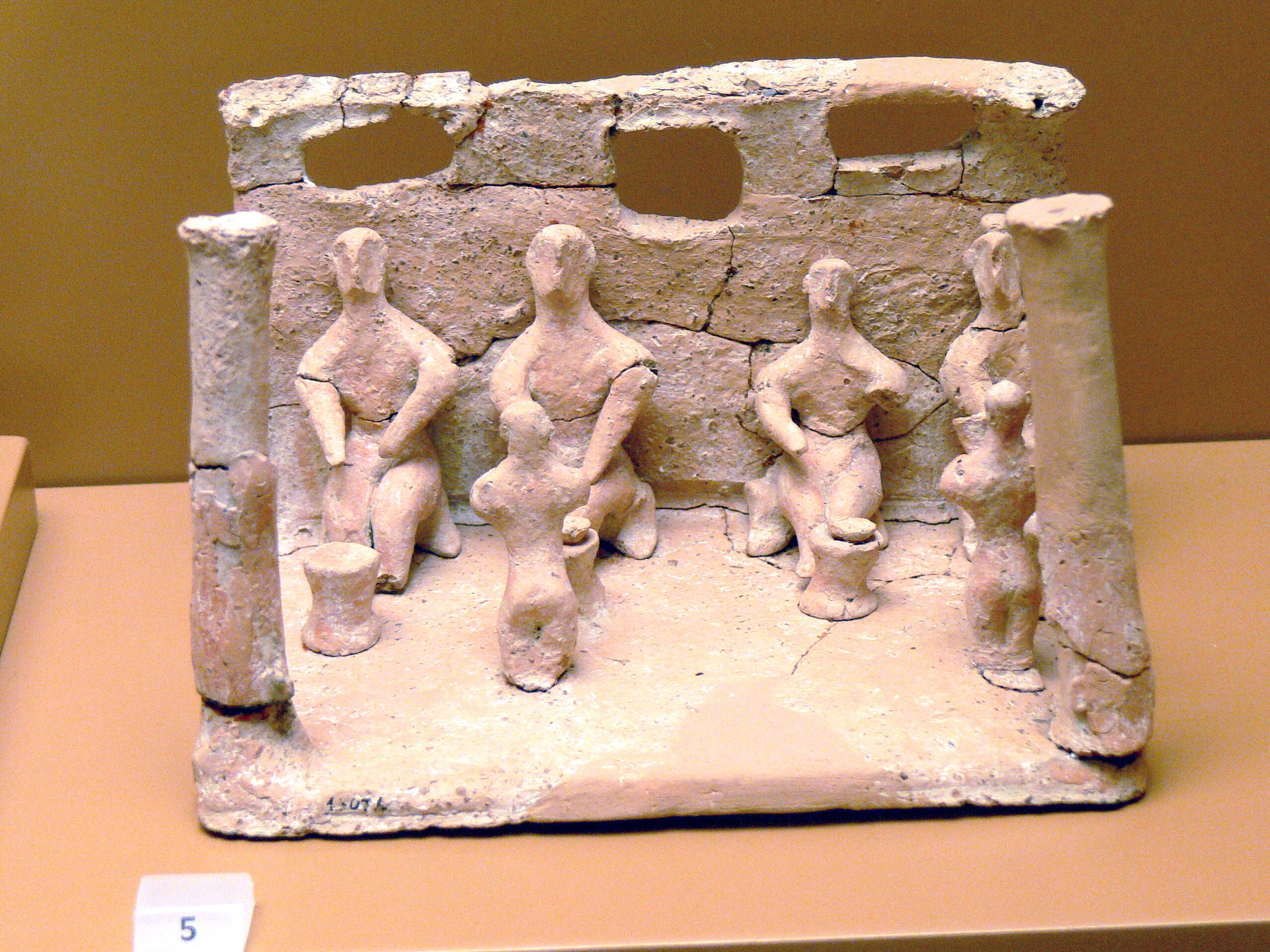 Archaeological Museum in Herakleion. Clay modell of a minoan sacrifice. Found in the Tholos tomb of Kamilari.